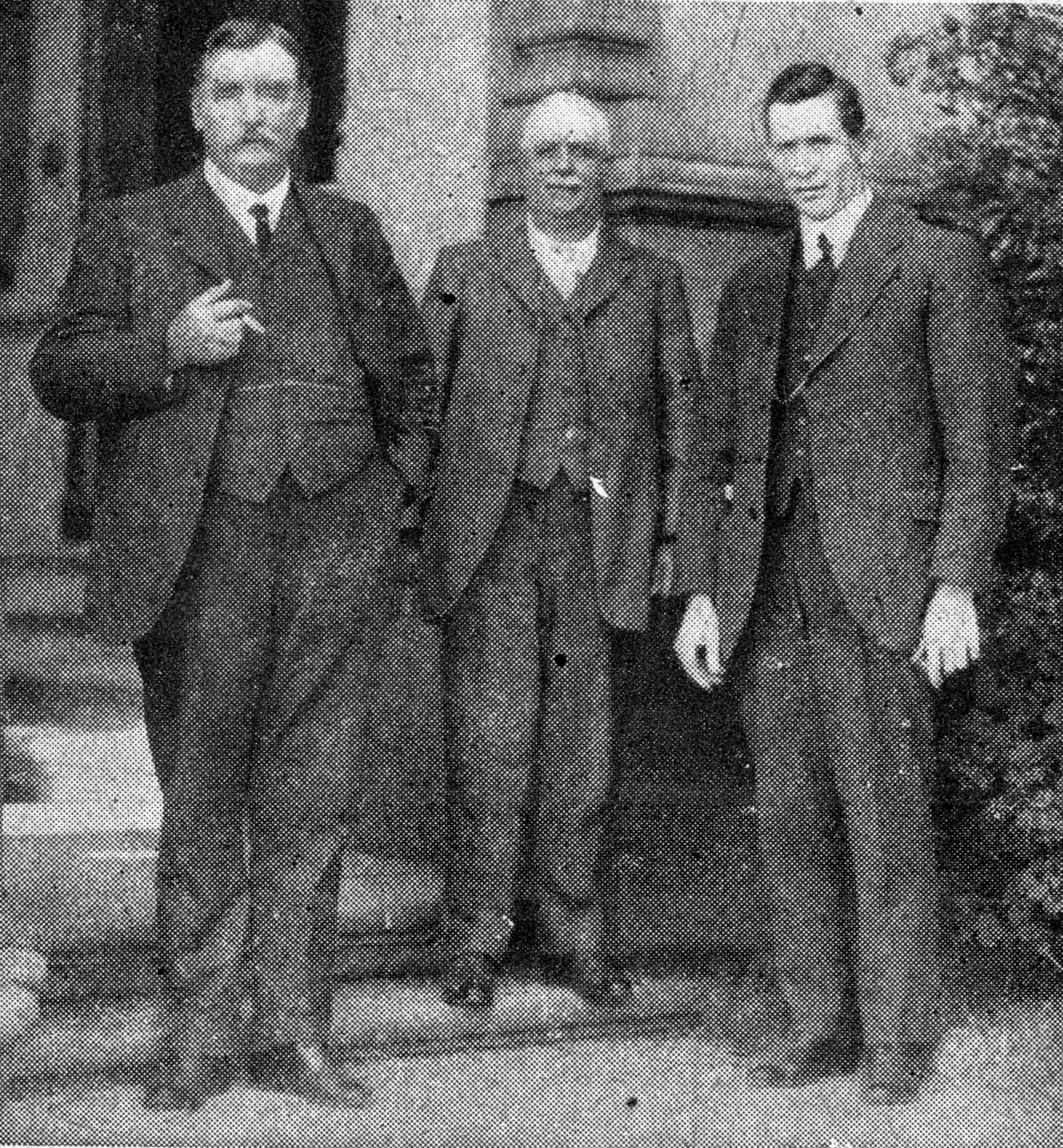 William Halliwell Demaine (centre) at the Governor General's Conference, 1918 William Halliwell Demaine was born in Yorkshire, England, in 1859. He married Mary Susannah Preston in 1880. He was a newspaper proprietor who became a member of the Legislative Council from 1917 to 1922 and an Australian Labor Party member for Maryborough from 1937 to 1938. He is photographed at the Governor General's Conference in 1918 with Mr Lefroy, the Premier of Western Australia and Mr Lambert, President of the New South Wales Labour Party. (Description supplied with photograph.).